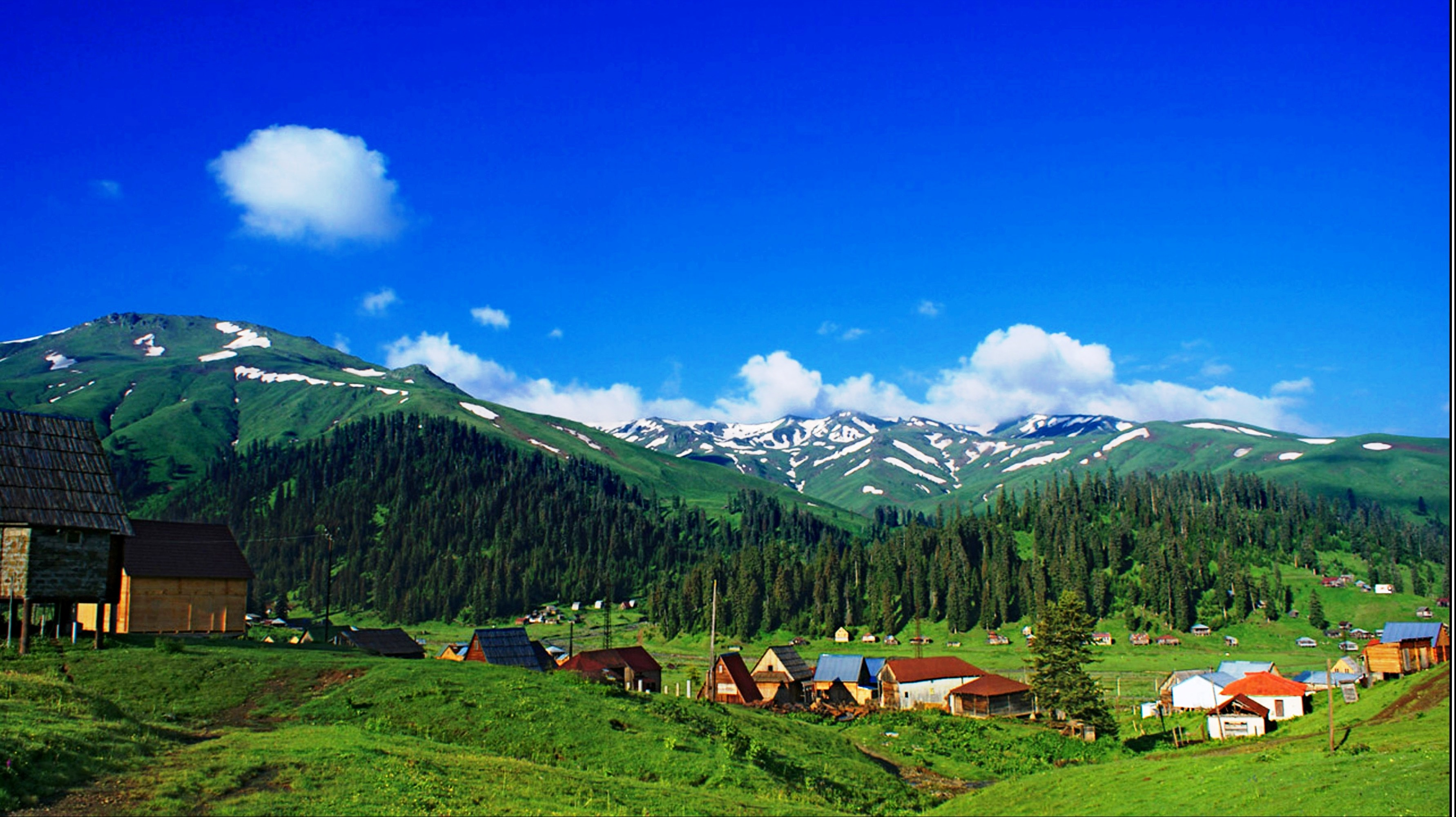 Resort in Guria